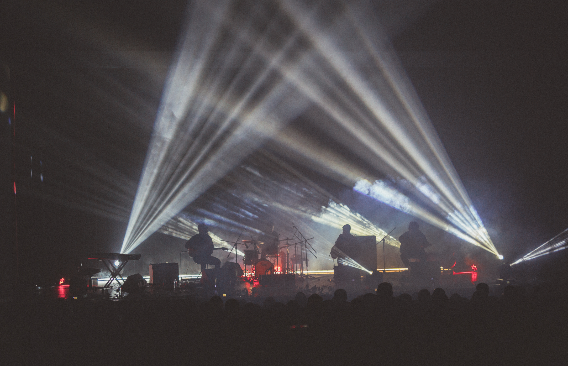 Crows in the Rain- Live Performance - Ivan Shams Hall - 2019